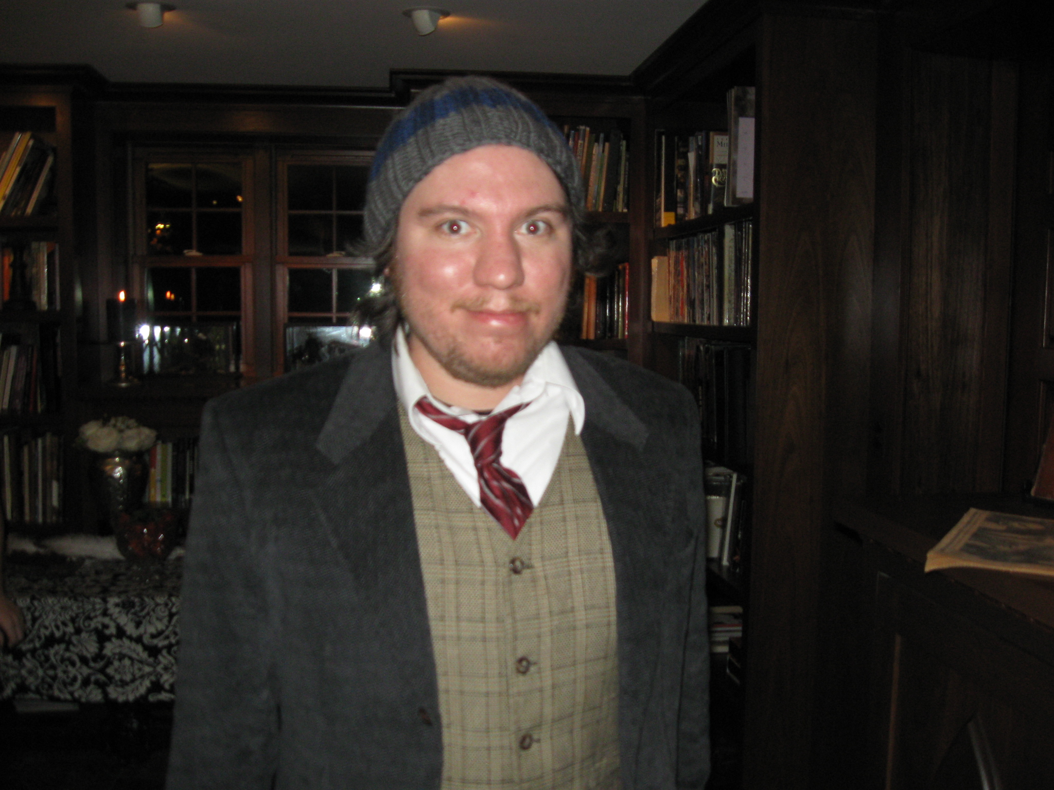 A photo of Jeffrey Rowland. Uploaded to Flickr by the subject